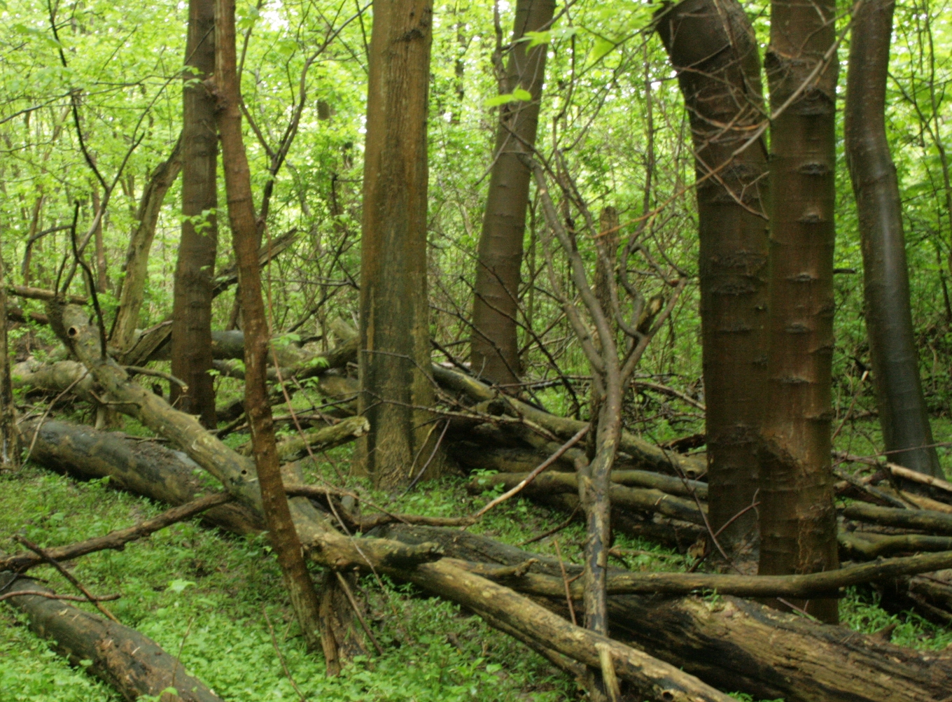 At the small nature reservation on the island of Vorsø, Denmark, a forest dominated by Acer pseudoplatanus has been growing up on the former agricultural fields since 1928. This forest is becoming more light as trees succomb as a result of competition.